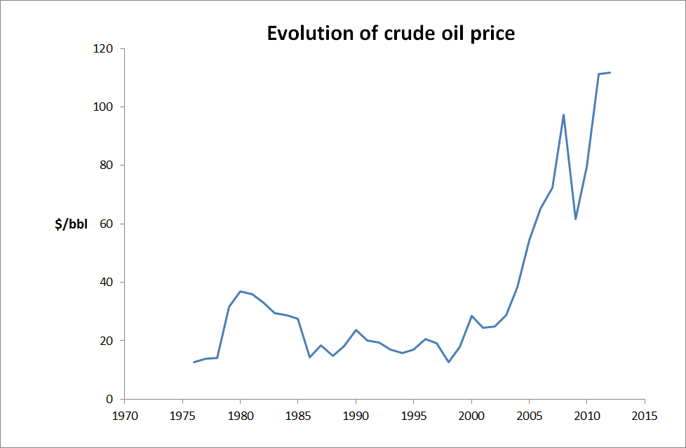 Chart of oil price evolution based on data made freely accessible by BP in Statistical Review of World Energy 2013